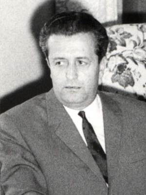 Branislav Škemberović politician